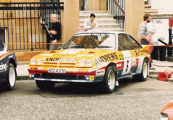 Opel Manta 400 in Glasgow, prior to the 1986 Scottish Rally